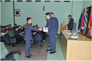 Graduation ceremony after a common module (European initiative for the exchange of young officers inspired by Erasmus)